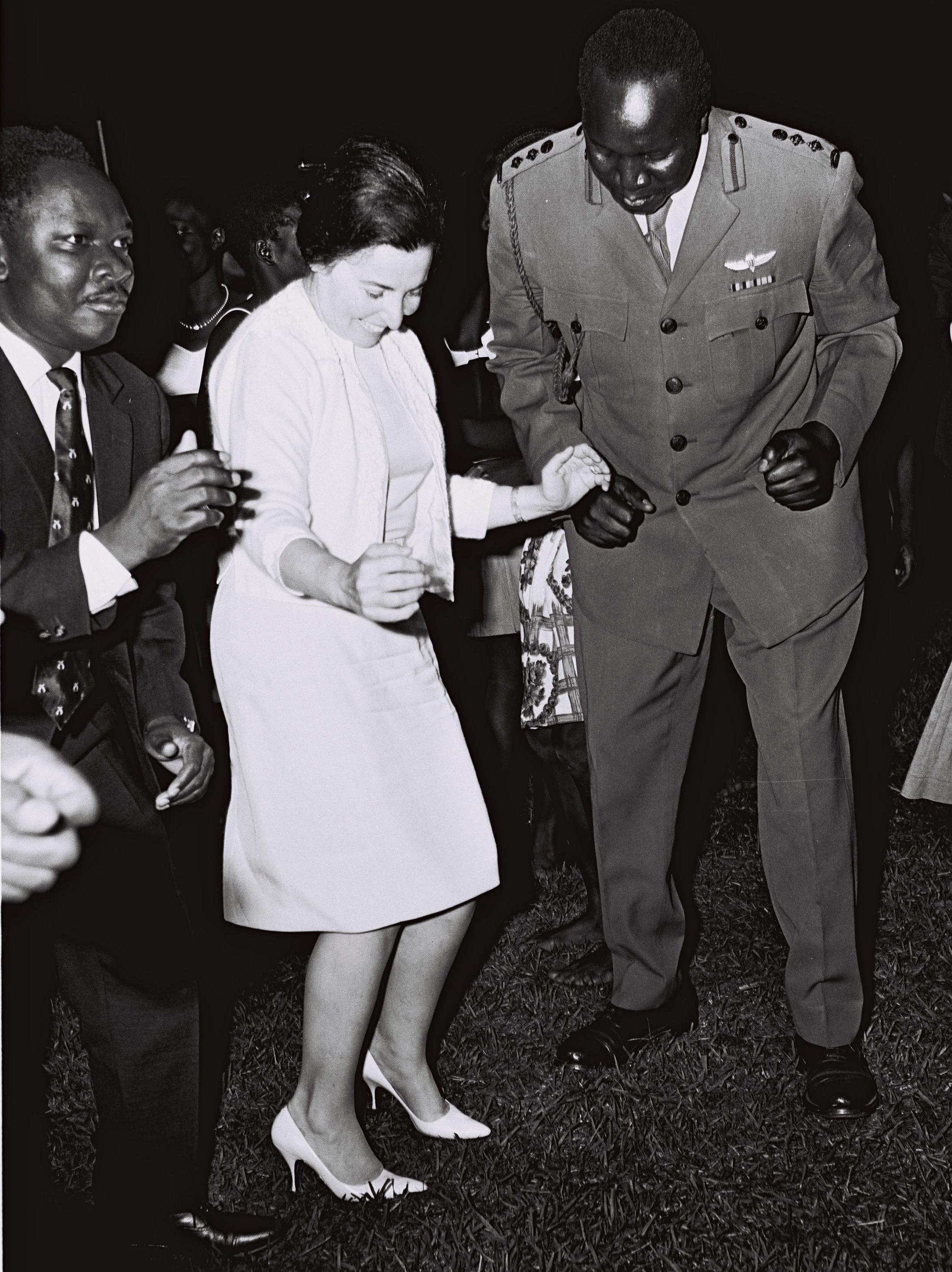 Mrs. Miriam Eshkol joining Uganda foreign min. Sam Odaka and chief of staff Idi Amin in a tribal dance during a party given for p.m. Levy Eshkol at Jinja military camp.